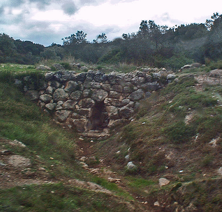 The Mycenaean Arkadiko Bridge or Bridge at Kazarma, Argolis, Peloponnes, Greece. The corbel arch bridge was part of a Mycenaean highway from Tiryns to Epidauros, which was constructed for use by chariots. The bridge was built in the late Greek Bronze Age (Late Helladic period LHIII, ca. 1300-1190 BC) and is still used by the local populace.